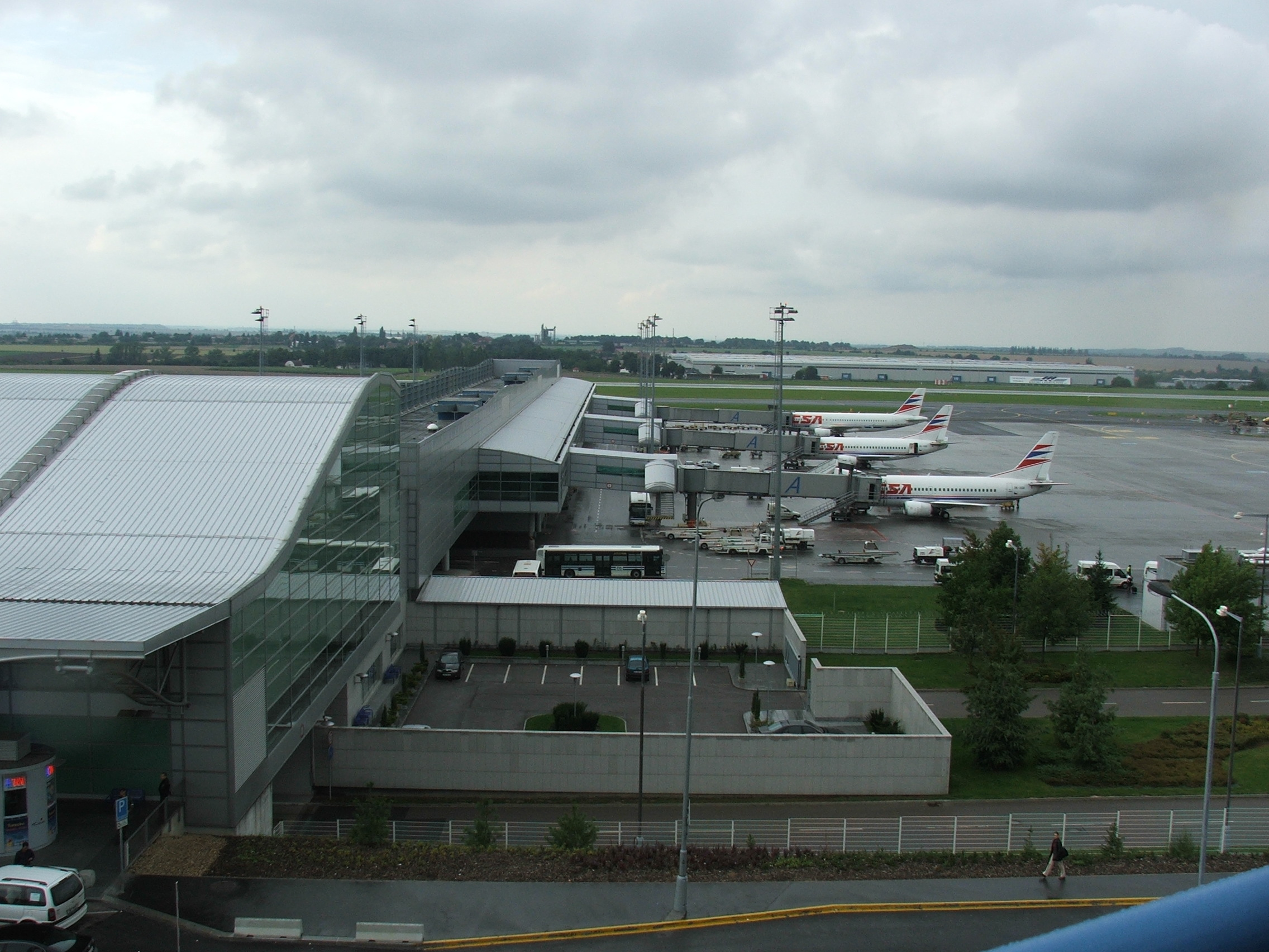 Terminal North 1, Departure Hall, Pier A, Prague Intl. Airport Ruzyně, Czechia.